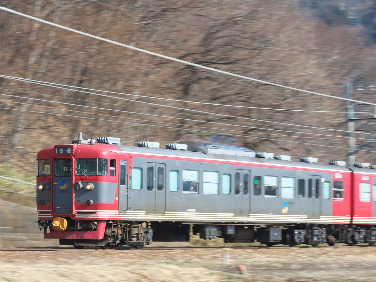 Shinano Railway 115系 EMU.